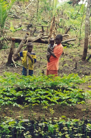 tree nursery for reforestation in Guéckédou Prefecture, Forest Region of Guinea (original title: "next generation of trees and Guineans")